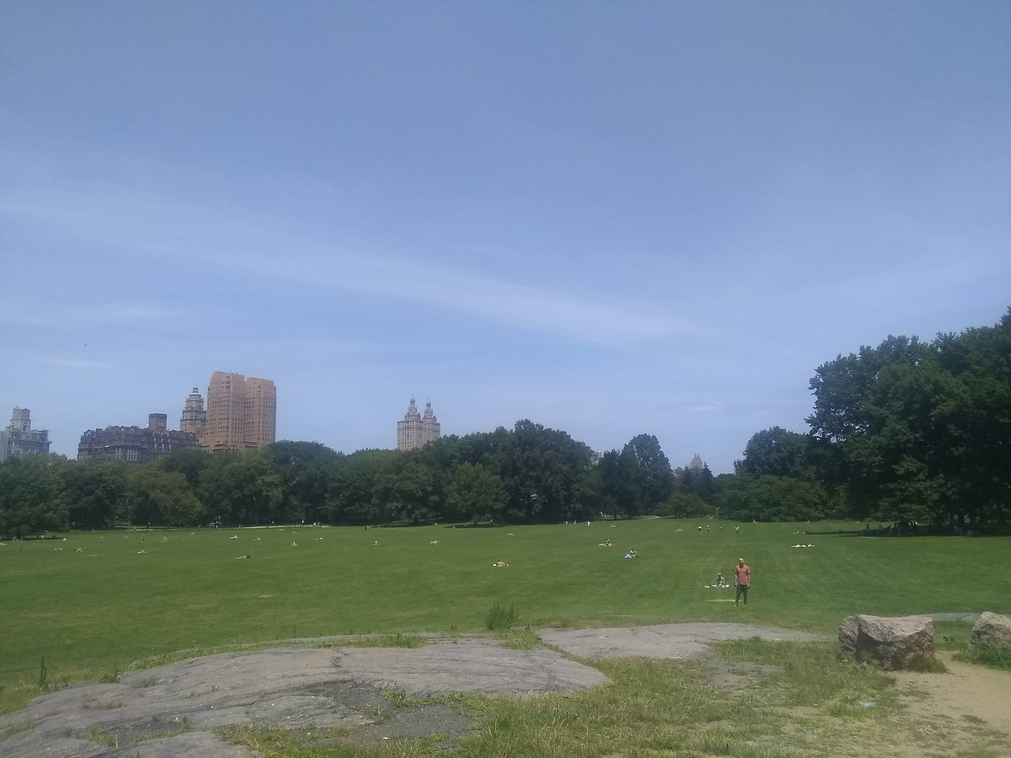 Central Park in Manhattan, New York; Sheep Meadow